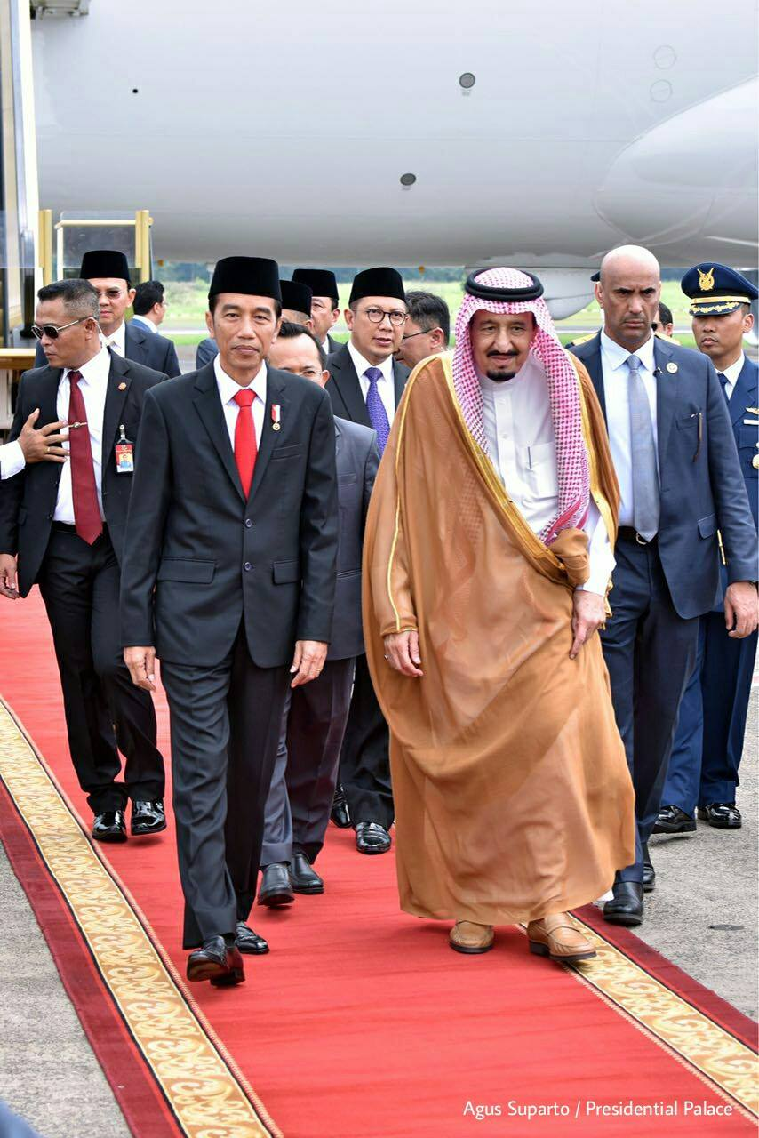 President Joko Widodo of Indonesia meeting with King Salman of Saudi Arabia, when Salman arrived at Halim Perdanakusuma Airport for a state visit to Indonesia [1]